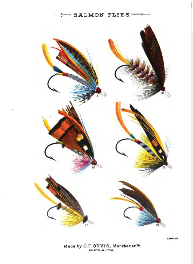 Color Plate B from Favorite Flies and Their Histories - Mary Orvis Marbury, 1892